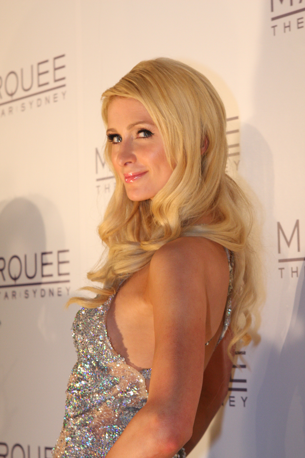 Paris Hilton, Friends, Hollywood Celebrities Open Marquee The Star, Sydney, Australia